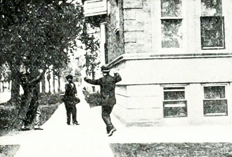 Film still from Selig Polyscope production The Female Highwayman released in December 1906; still shows female bandit (center figure) after robbing a bank courier (left, with arms up) and pointing her pistol at an approaching police officer; image copied from Revised List of High-Class Original Motion Picture Films, a 1908 sales catalog of unspecified film distributor, printed in the United States, 1908, p. 227.